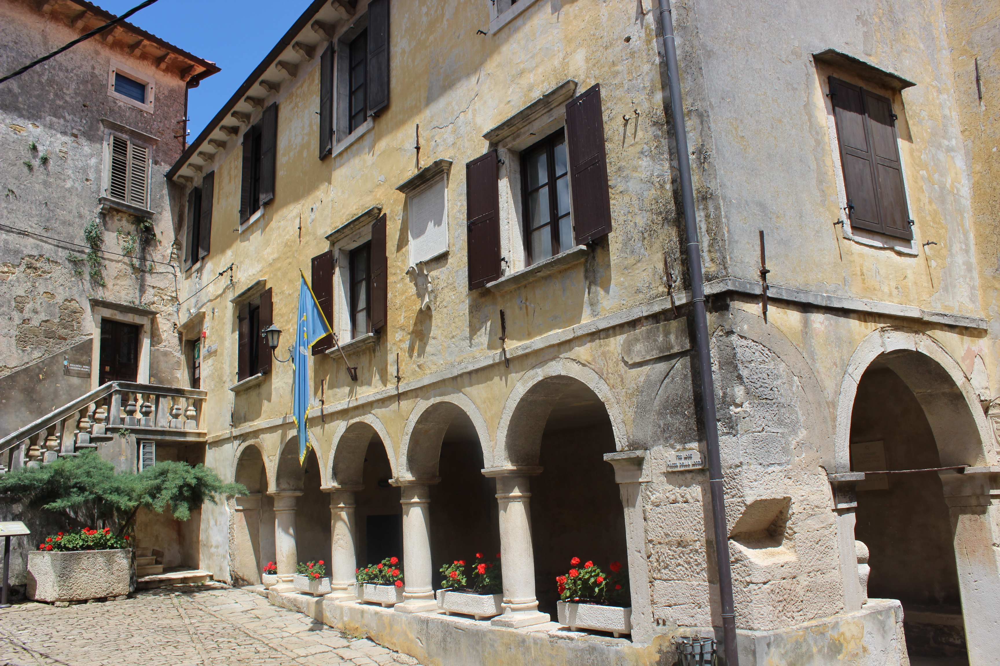 Fonticus with loggia, today's Gallery „Fonticus“, in Grožnjan, Croatia